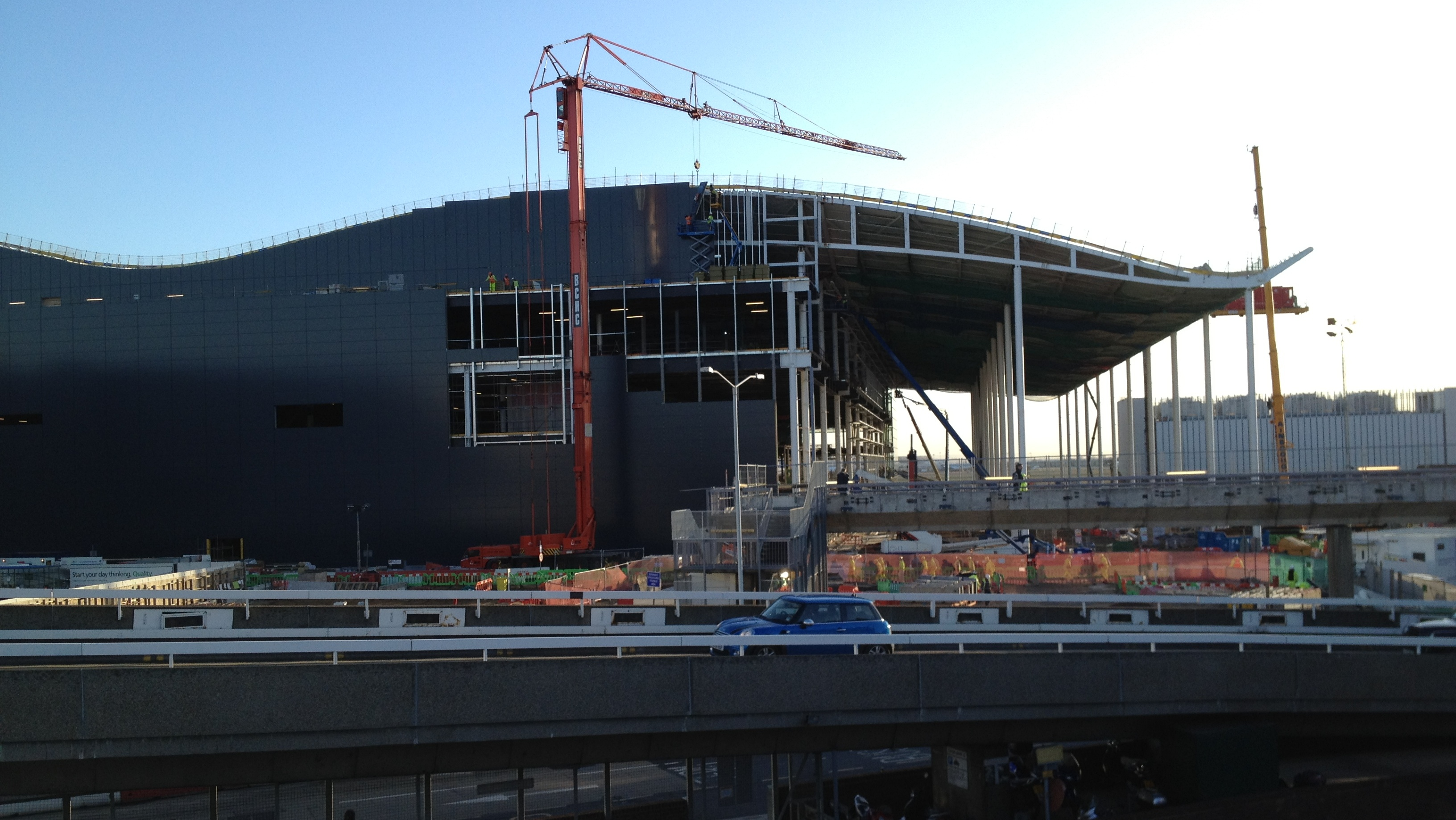 London Heathrow Airport Terminal 2 building under construction, January 2012